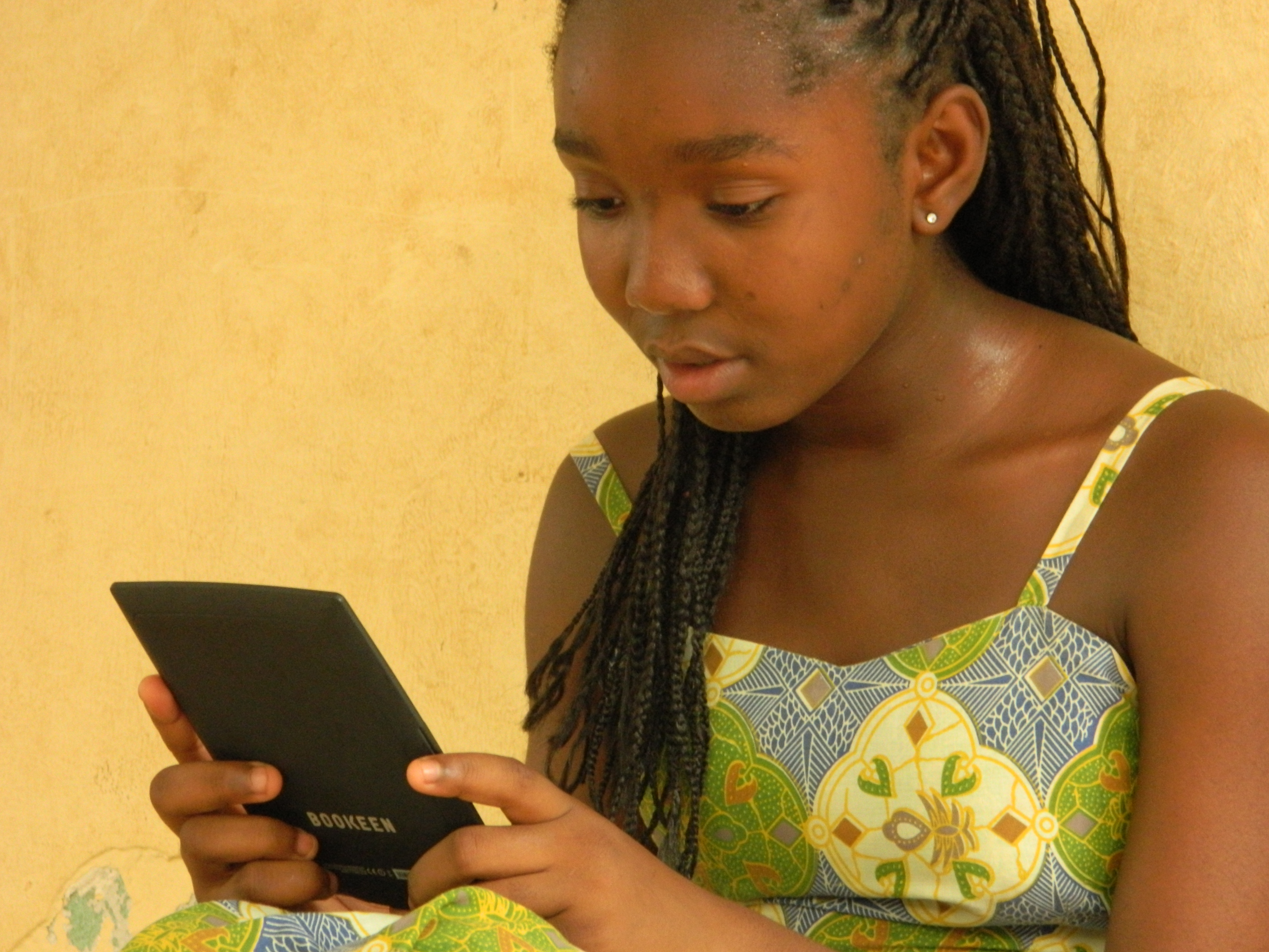 Sakina reading «Le Petit Prince» on a Bookeen Cybook ereader in Bamako, Mali